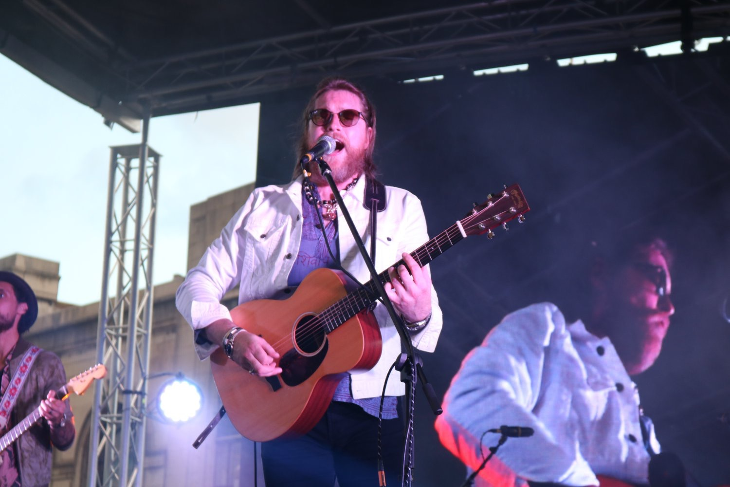 Andy Bennett live at queens square Wolverhampton